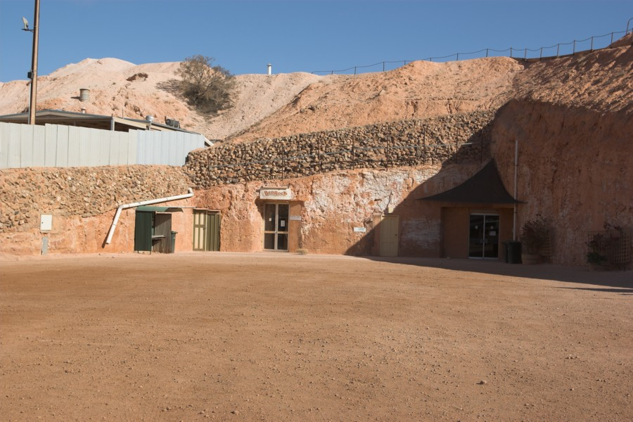 Dug-out in Coober Pedy